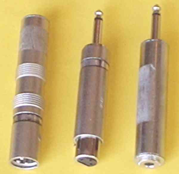 Three audio transformers, two of them baluns Except for the connections, all three are electrically identical, but only the leftmost two can be used as baluns. The one at left would normally be used to connect a high impedance source, such as a guitar, into a microphone input. The one in the centre is for connecting a low impedance source, such as a microphone, into a guitar amplifier. The one at the right is not a balun at all, and provides only impedance matching. This is an original photograph by Andrew Alder, taken on 19 September 2003. Permission is granted to copy, distribute and/or modify under the GFDL, version 1.2 or any later version published by the Free Software Foundation; with no Invariant Sections, with no Front-Cover Texts, and with no Back-Cover Texts.